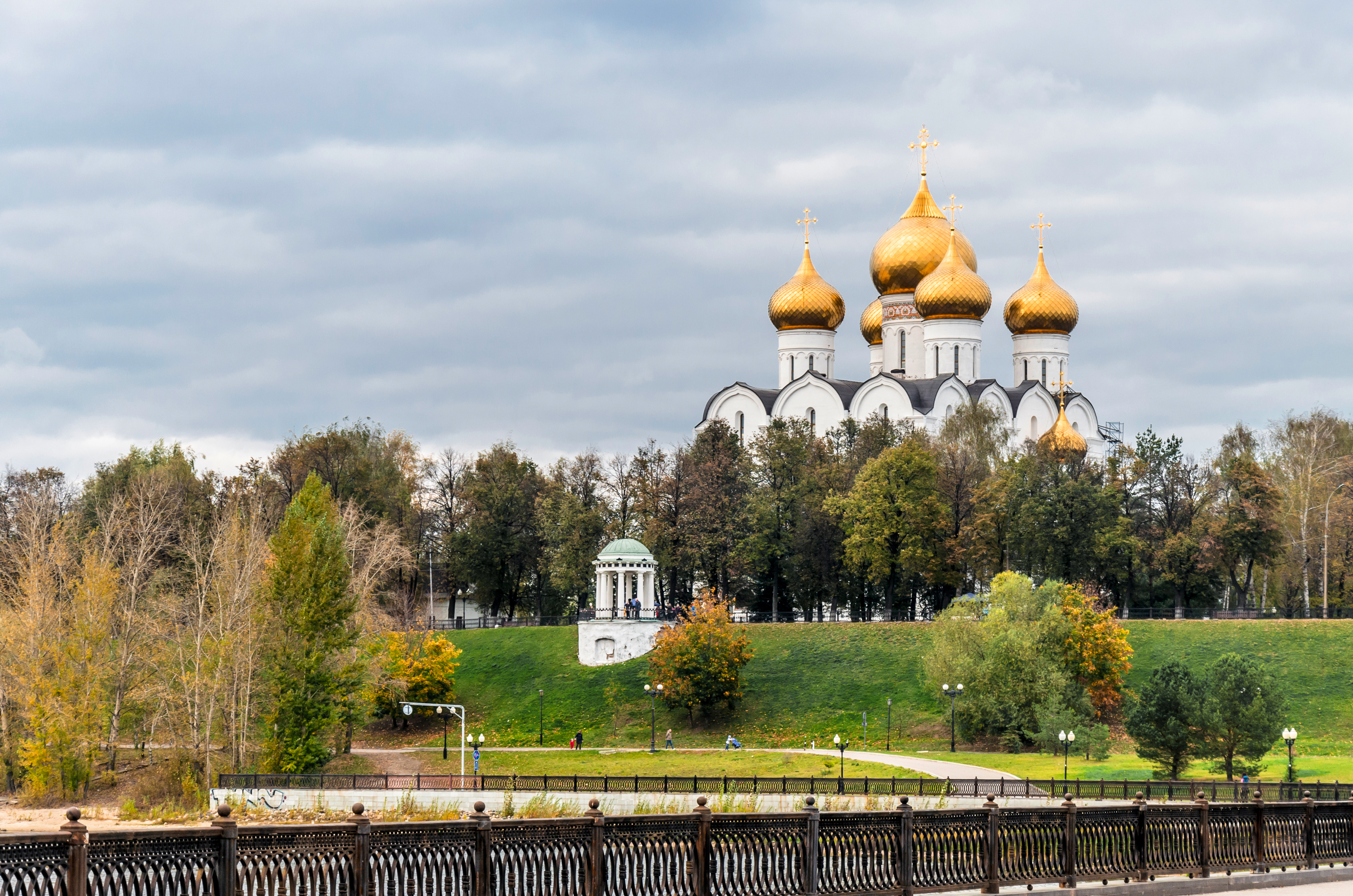 View to the Assumption Cathedral of Yaroslavl